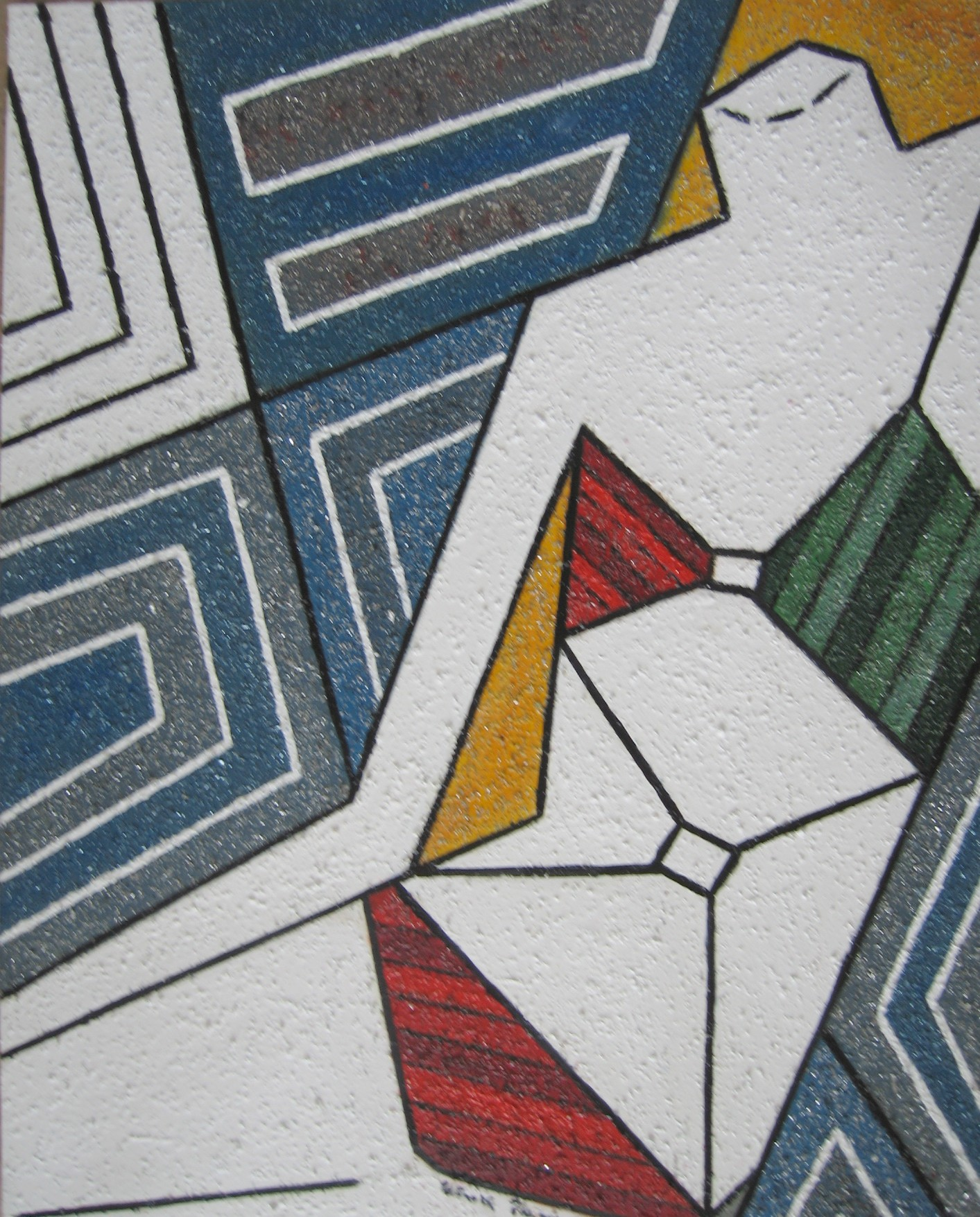 Crépuscule du désir - Twilight of desire (100 x 80 cm), oil & metal on canvas. , by Erik Pevernagie Love can be a land of wilderness, a wasteland of lost dreams in the backwoods of our muddled emotions, or it can be a heaven of ecstasy with an abundance of surrender, resplendent with acceptance and dependability. Let us not fall short of desire, but let us give way to the unspoken passion hidden in the closet of discretion. Let us not still our anger against indifference and inattention and let us not showiness and condescension slither into our thinking if we don't want our conscience to take revenge. People, walking on the catwalk of indifference and evaporating in a bubble of apathy, are unconscious of the decay of their emotions and the scattering of their attention that are crucial obstacles to refreshing their mental framework and to topping up the contents of their life story. When we lost the eager longing for someone or have no intense craving for exciting actions in life anymore, the aura of meeting exclusive people may be blurred, and the wish of unexpected encounters deafened. Desire or intense liking is an exacting and ongoing quest to find the right contexts in life. Therefore patience and indulgence are decisive in hitting the trail to empathize with people. When eagerness and passion vanish, desire is deserting the weary mind. At that moment, the power of craving is reaching a twilight zone: the twilight of desire," le crépuscule du désir." Phenomenon: Desire, longing, superficiality Factual starting point of the picture: woman .